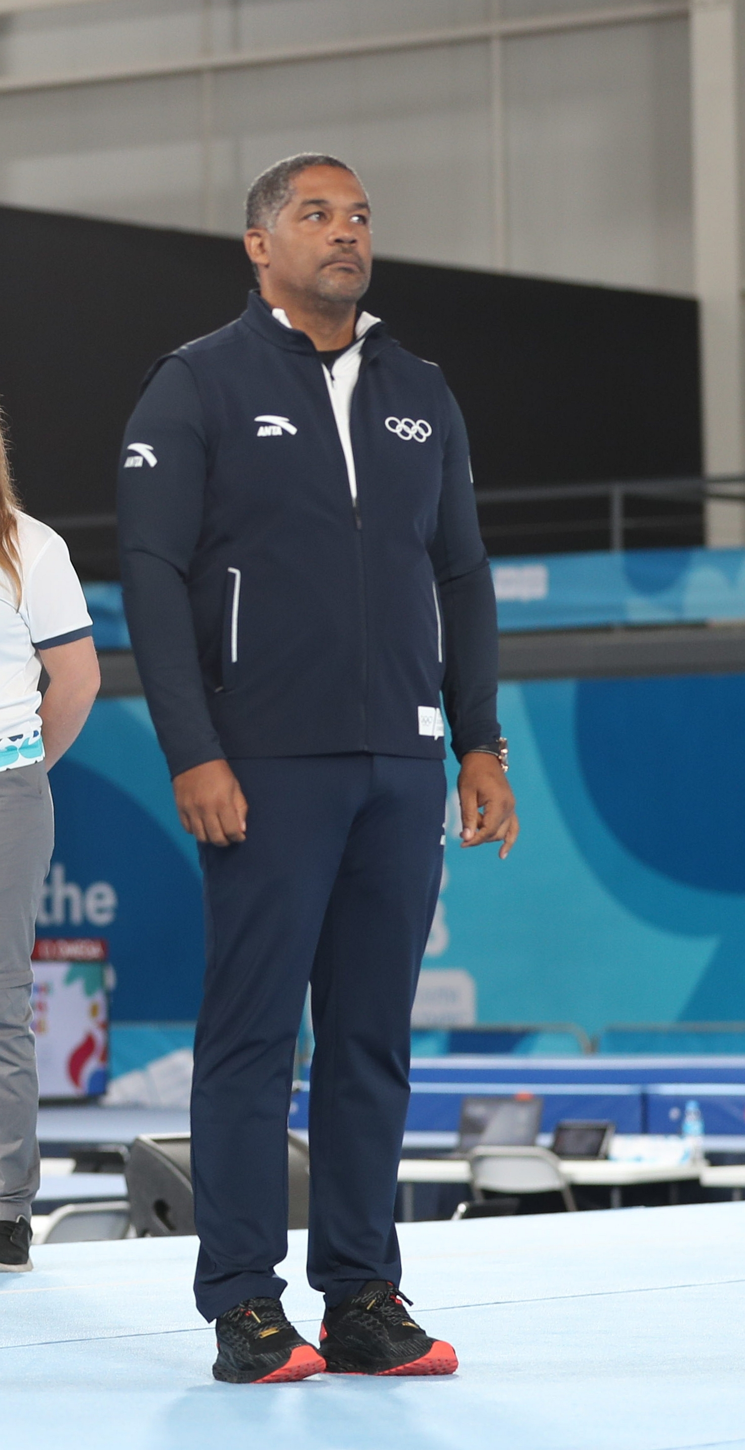 Victory ceremony for the floor exercise apparatus final of the boys' artistic gymnastics at the 2018 Summer Youth Olympics in Buenos Aires on 13 October 2018.